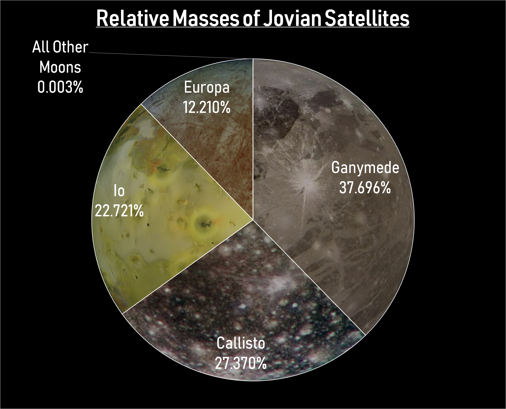 Pie chart of the masses of the Jovian moons. Based on